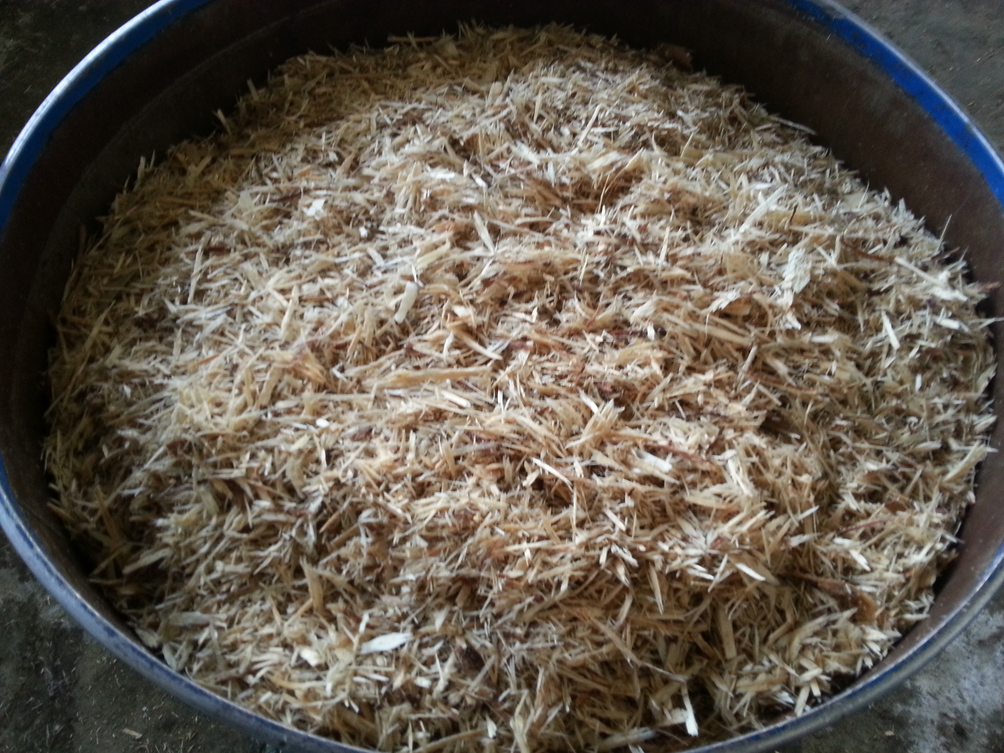 Wood chips for arbolit